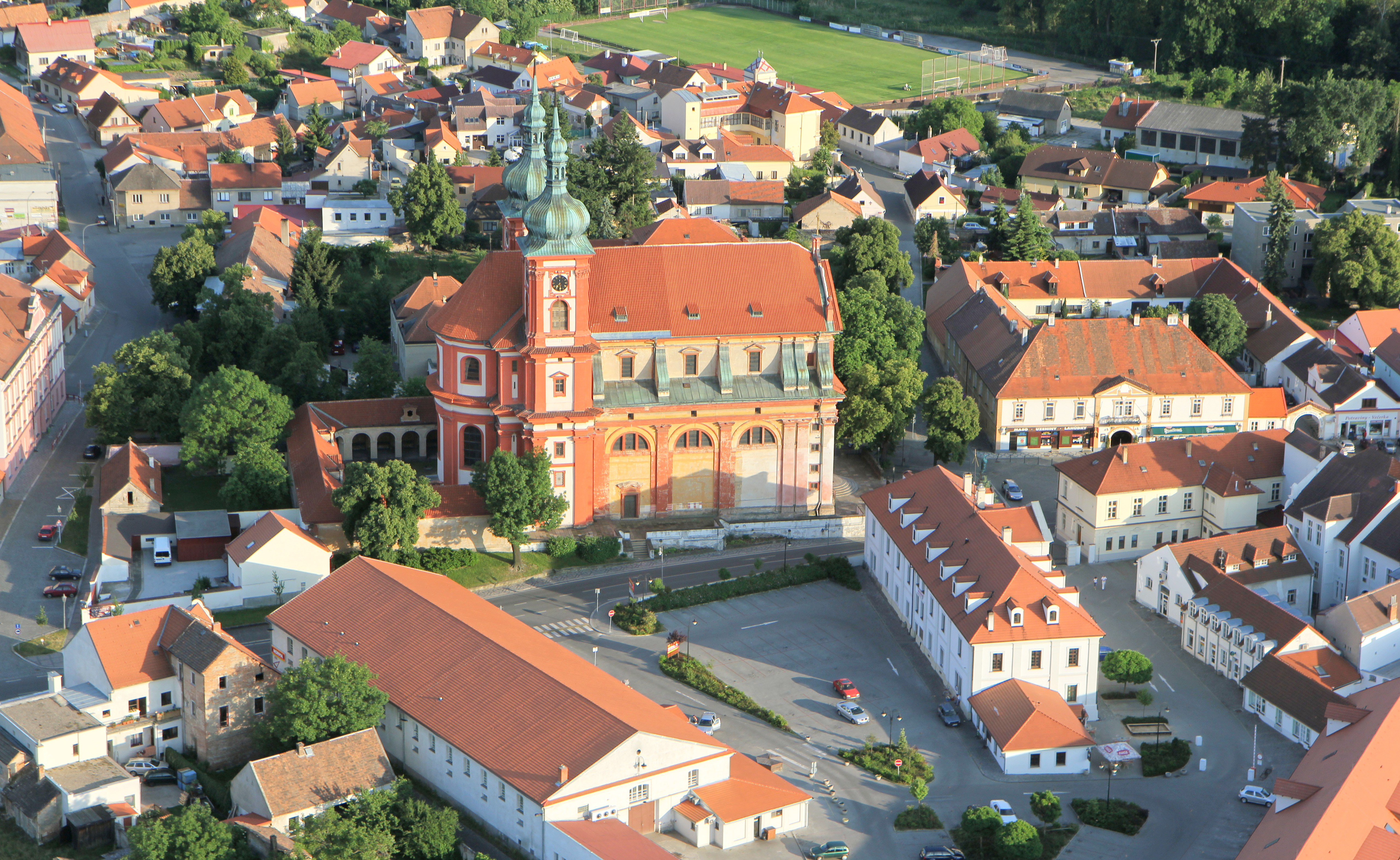 aerial photo